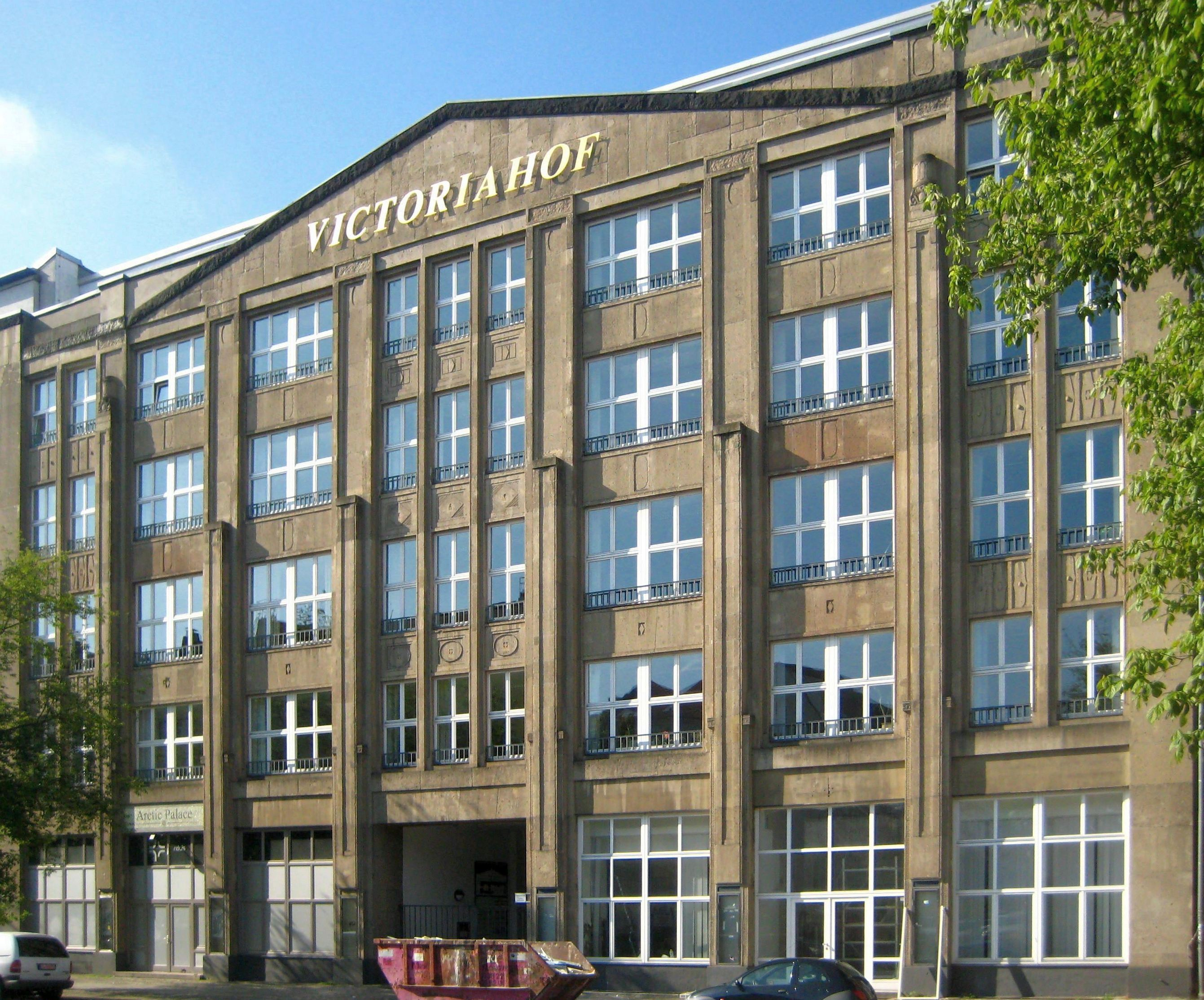 The Viktoriahof at Köpenicker Straße No. 126-126A in Berlin-Mitte, built 1909 to 1910 by the architect Kurt Berndt for the "Suitcase and Travel Equipment Manufacturer" Emil Trebesius; it is a typical example of a small businesses building with floor factories in Berlin. The complex has three inner yards (originally four), but only the front building and the first yard have survived in their original outlook. The street facade is covered with limestone and designed in the contemporary style of Neo-Classicism, showing only modest Art Nouveau ornaments. The facade of a side wing at the inner yard has white tile bricks, interspersed with red-brown elements for decorative purposes. The building was renovated from 1992 to 1993 and received an attic at that time. Several textile and metal factories were once located in this building; it is now mainly used by small service companies. The building has been designated as a historic landmark.